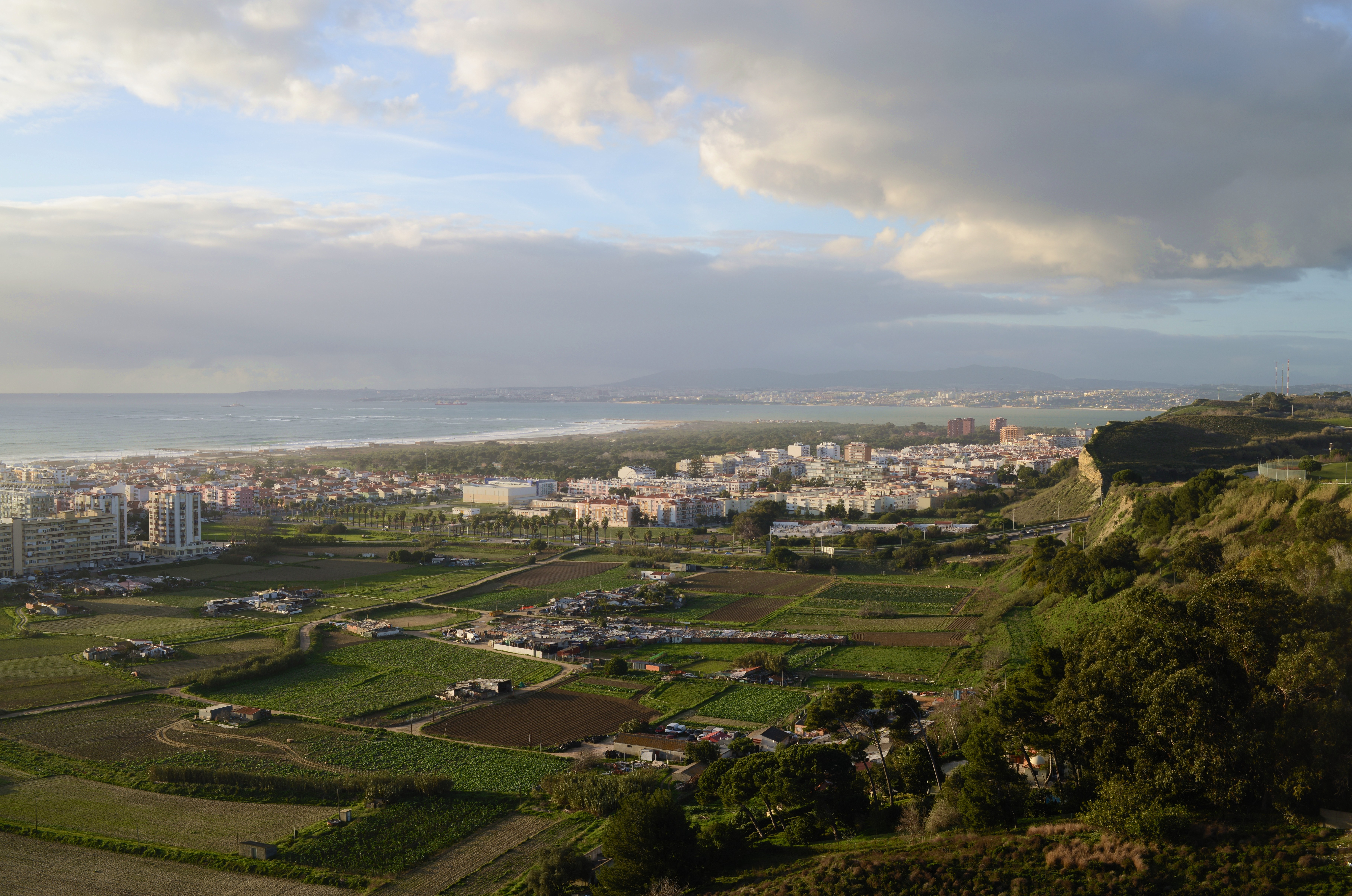 View to Costa da Caparica, (Portugal) from southeast